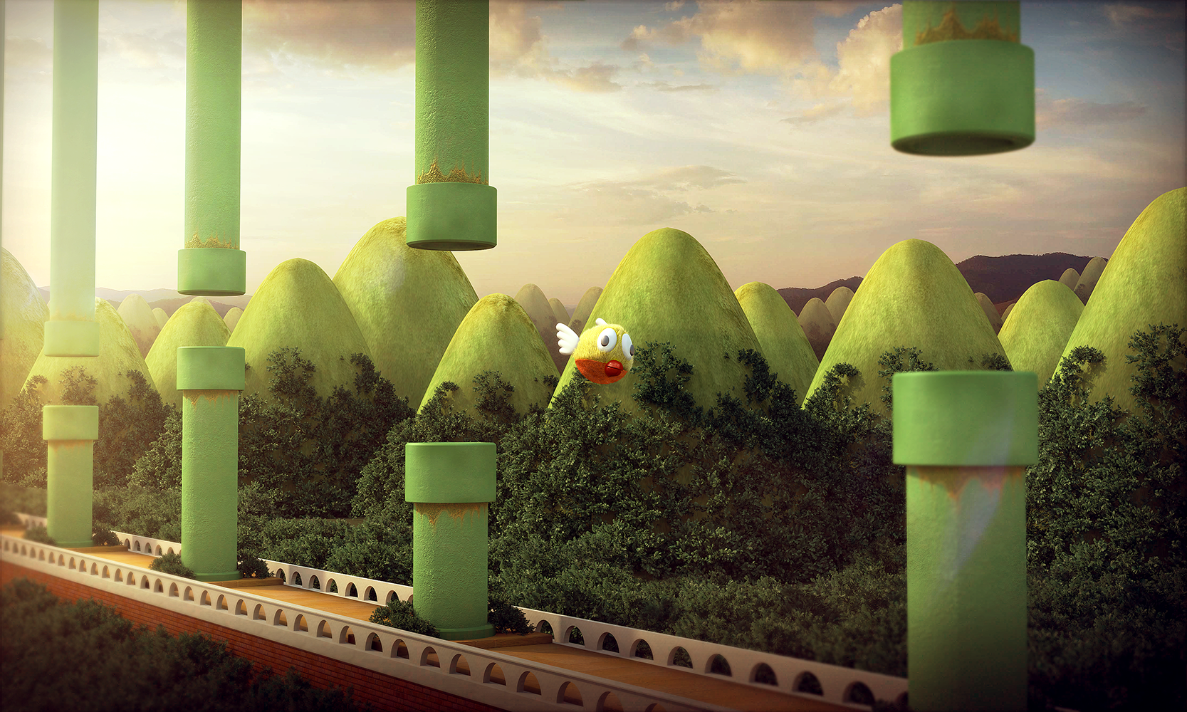 The scenery from the game, Flappy 3D, a reimagining of Flappy Bird